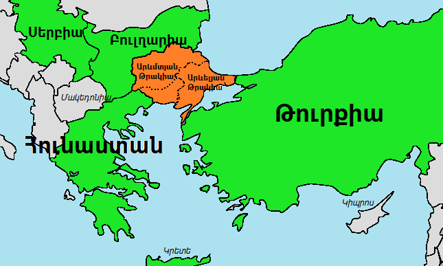 Thrace in South Europe and Turkey